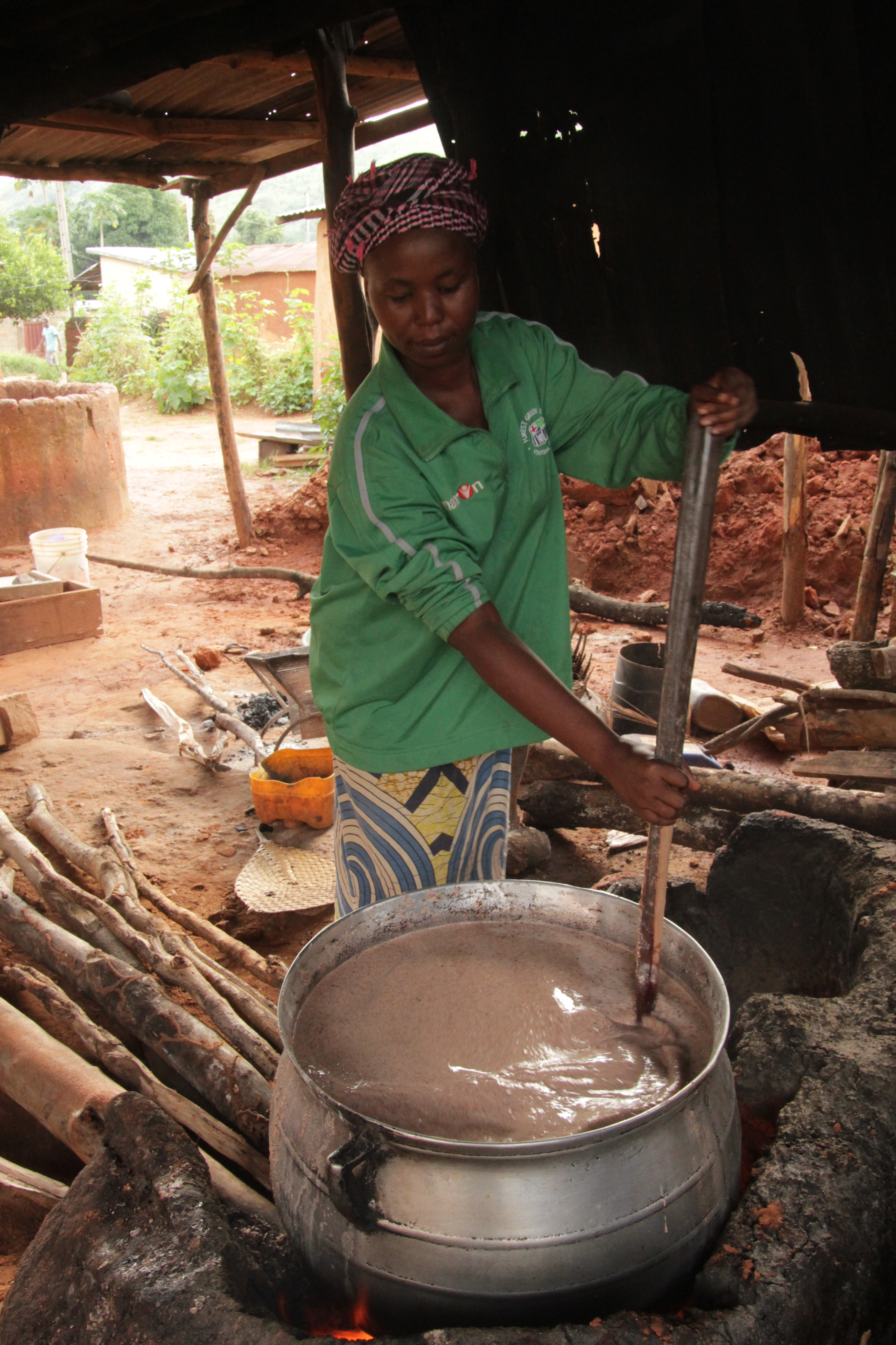 The head brewer of this tchouk house stirs the vat of boiling grain. While many men know the process, women are typically the ones who make and sell the beer.